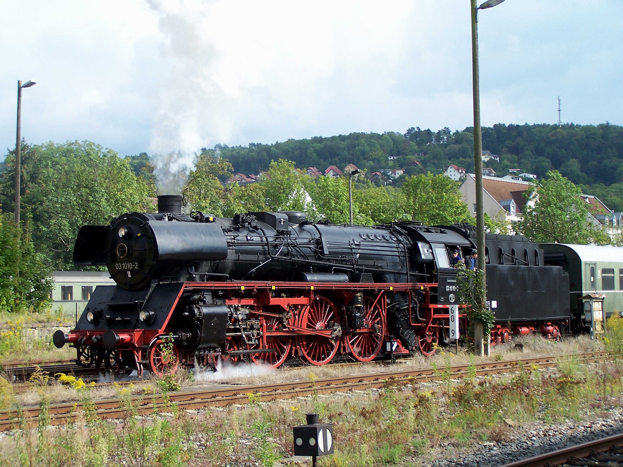 German steam locomotive DRG Class 03 No 1010 in Meiningen Steam Locomotive Works, Germany, September 1st, 2007